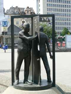 by Waldemar Otto, 1986